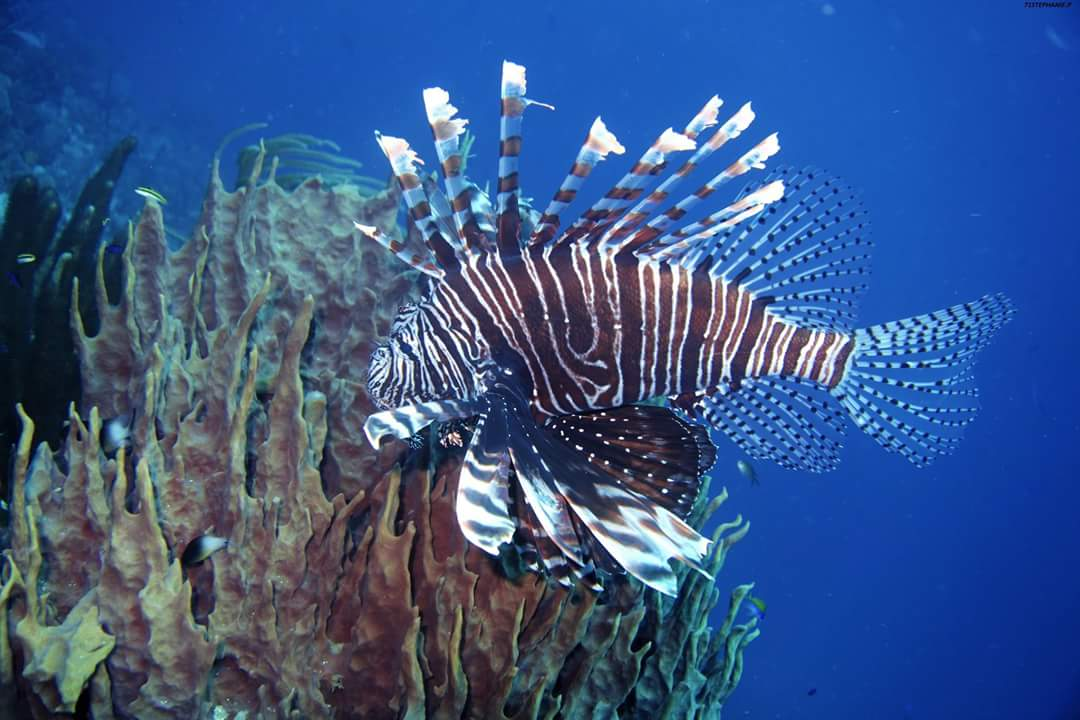 Poisson lion en pleine eau en Guadeloupe